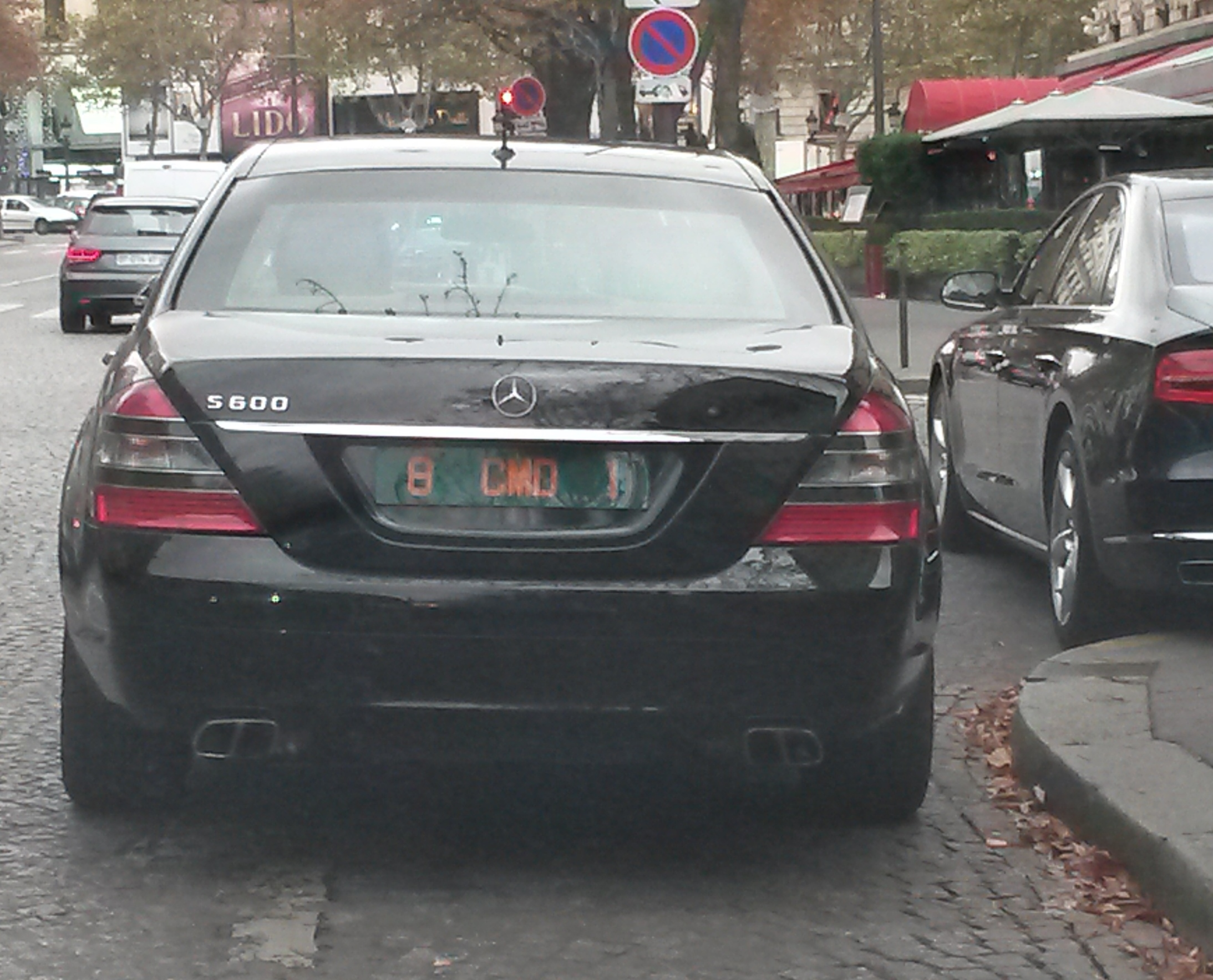 voiture Mercedes 600